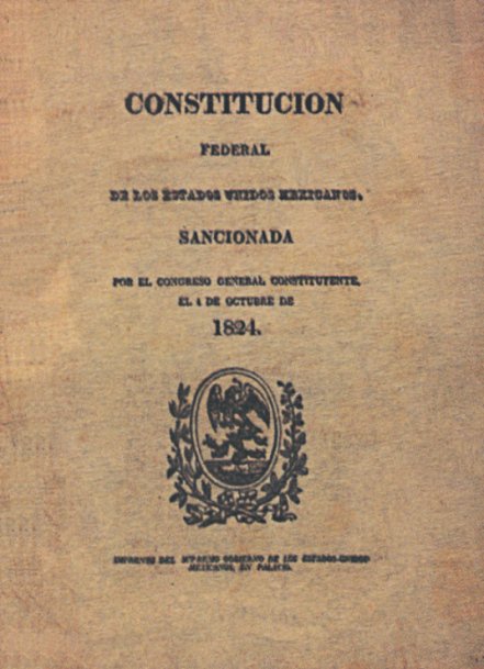 Portada de la Constitucion Mexicana de 1824